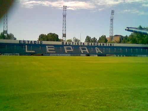 this picture was taked in mendoza